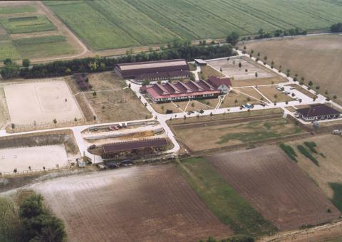 Sóskút, Hungary, aerialphotography